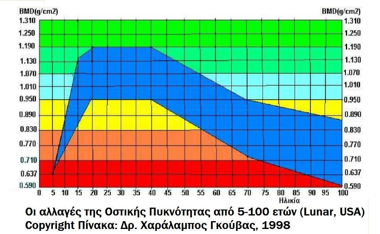 Βone density changes by ag